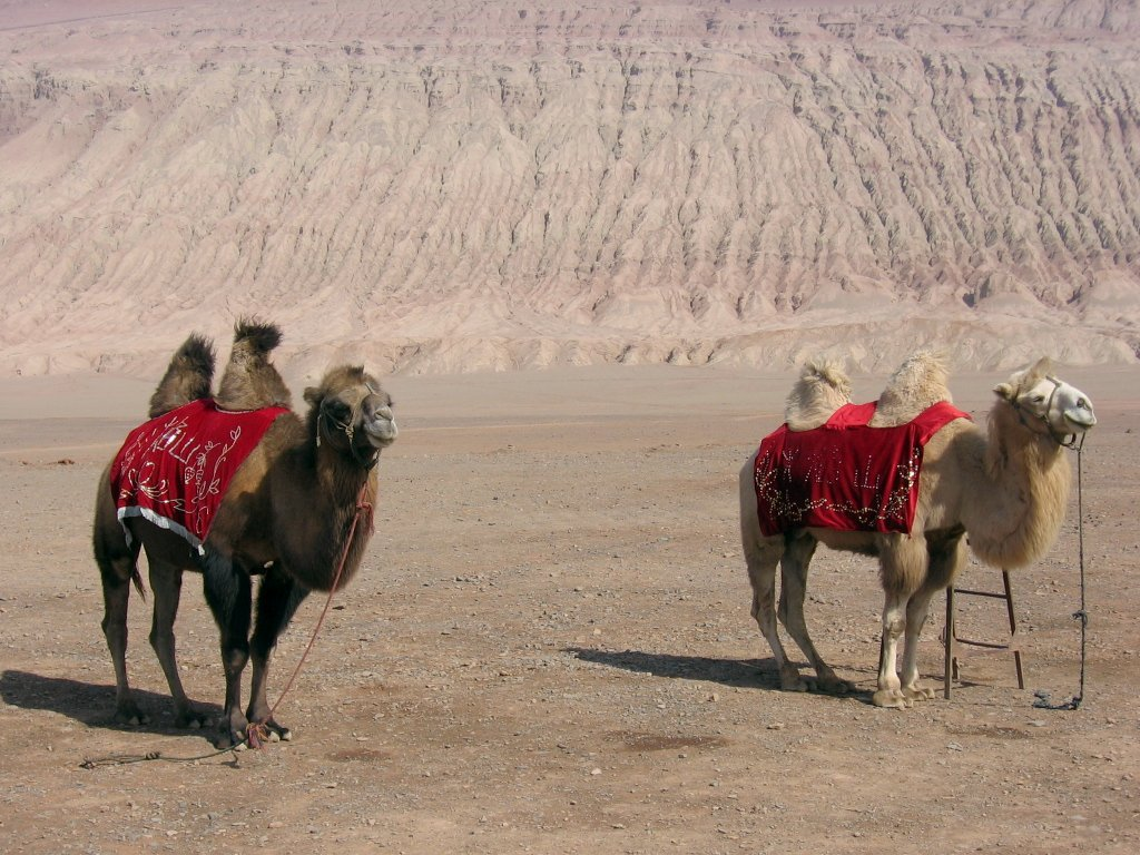 Camels close to Flaming mountains near Turfan in Xinjiang (China).